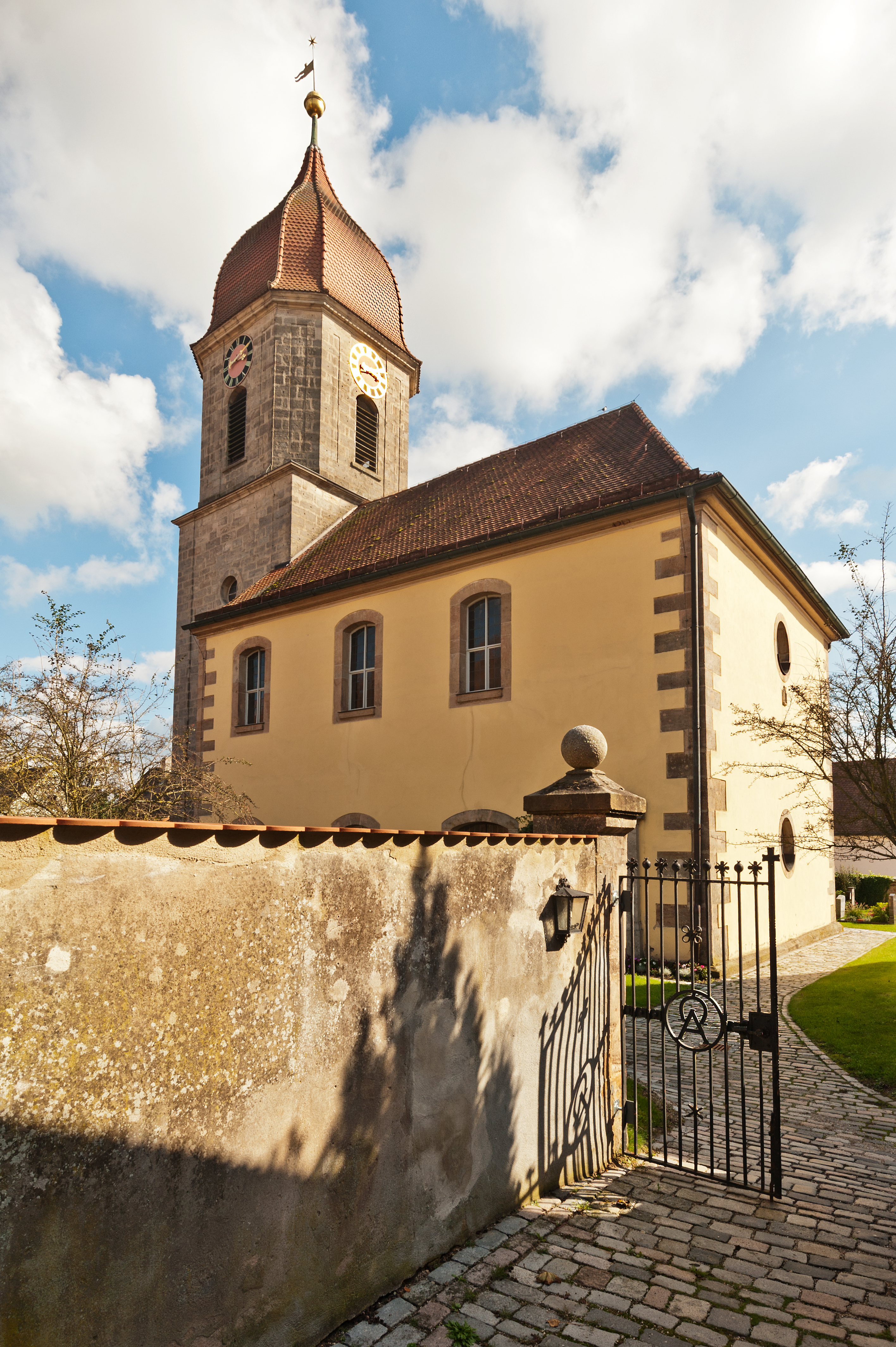 This is a photograph of an architectural monument.